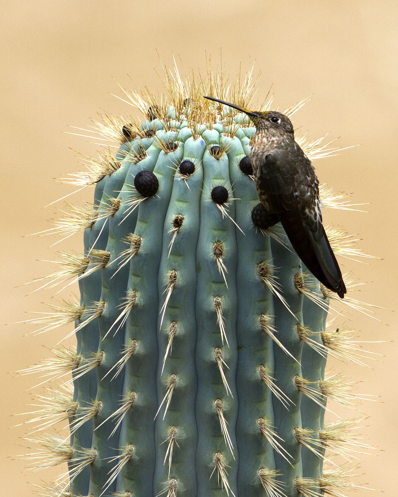 Giant Hummingbird (Patagona gigas) photographed by Devon Pike on a cactus south of Huancayo, Peru in 2011.